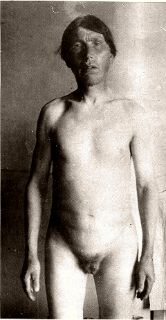 Castrated skoptsy-man